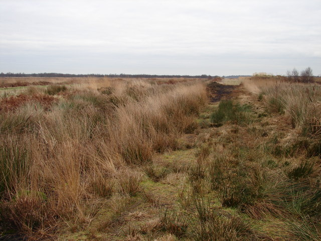 Footpath Through the Humberhead Peatlands, Thorne Moors, South Yorkshire, England.